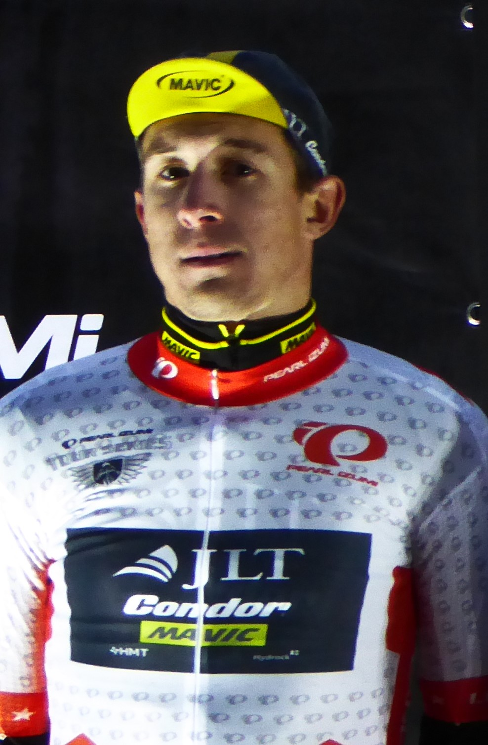 Jon Mould, pictured at Round 3 of the Pearl Izumi Tour Series in Edinburgh on 19 May 2016.